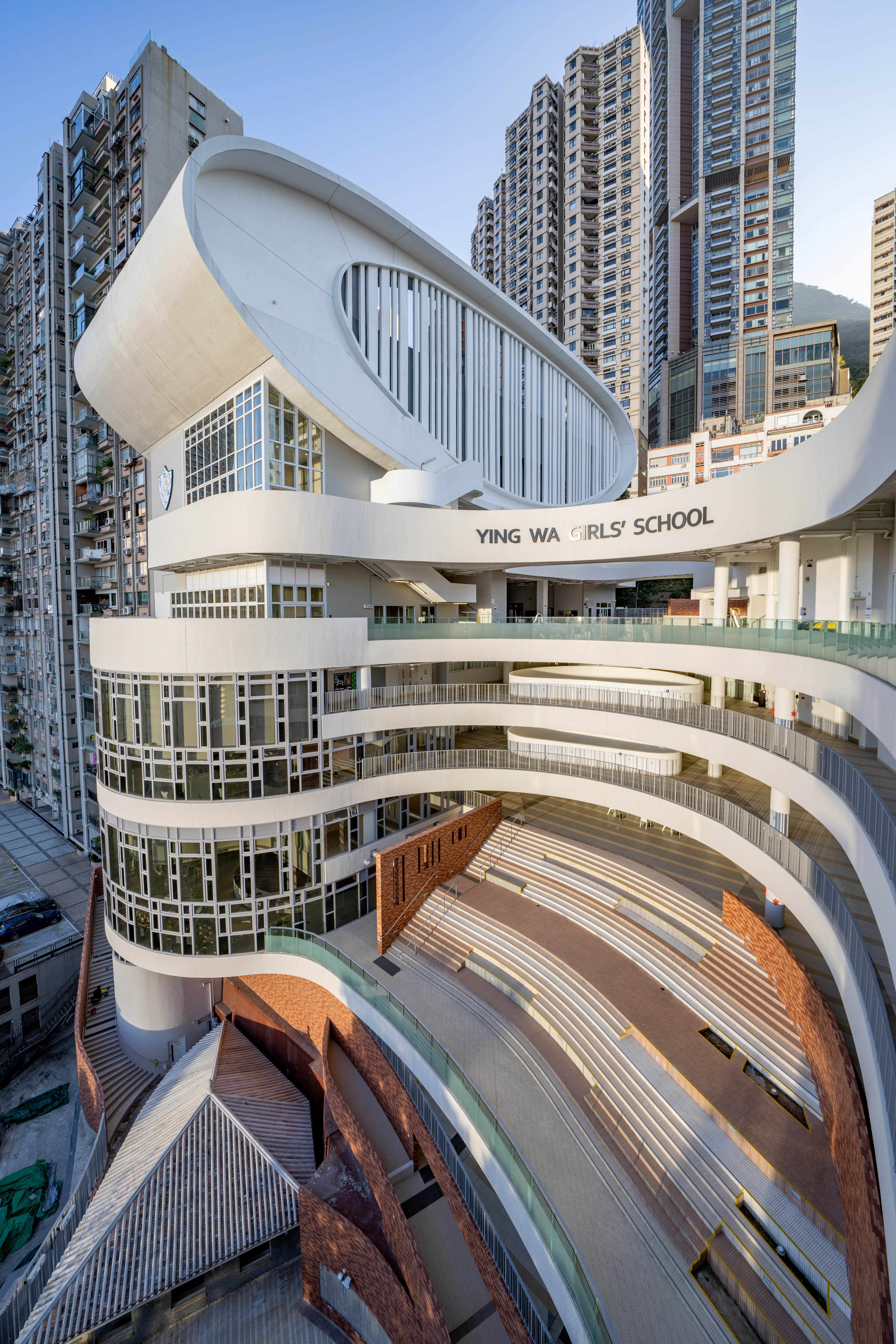 英華女學校新校舍